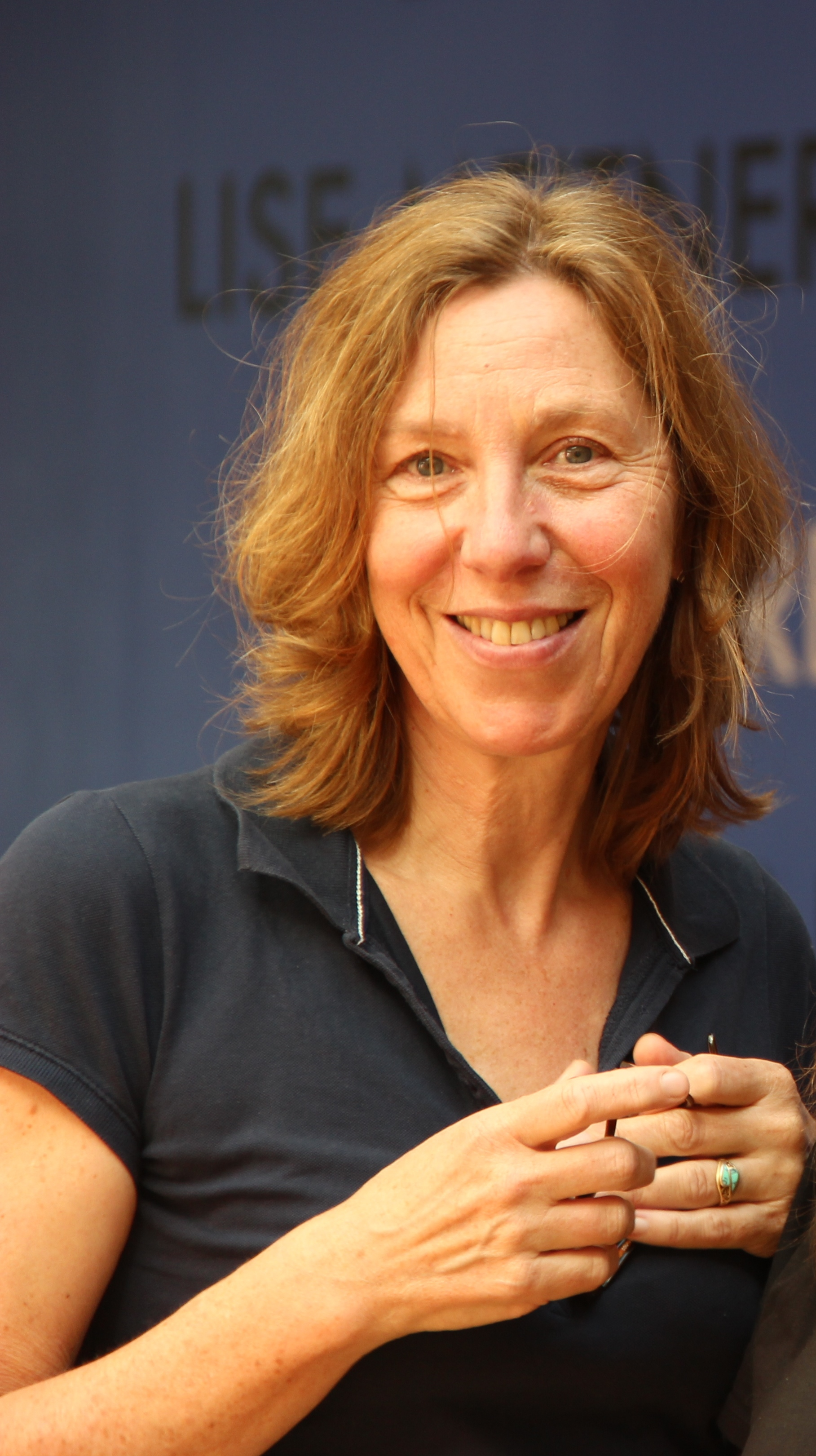 Doris Abele, Alfred Wegener Institute, Bremerhaven, Germany